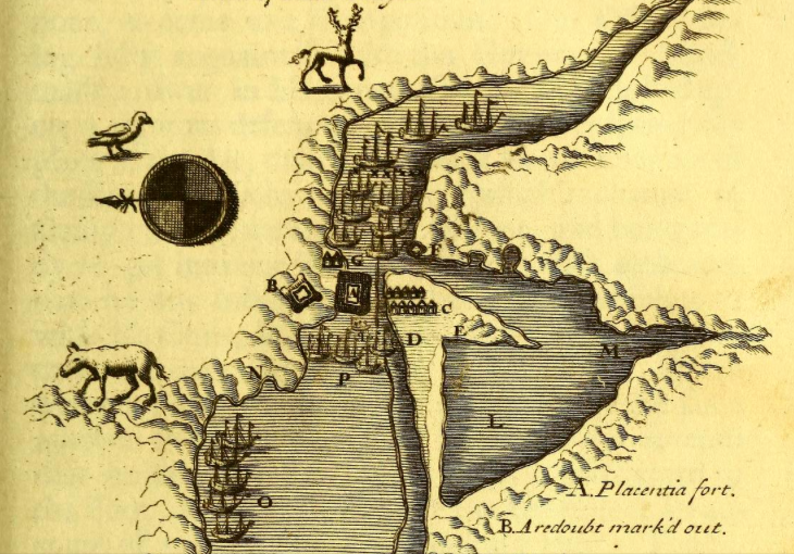 Battle of Placentia (1692) from New Voyages to North America